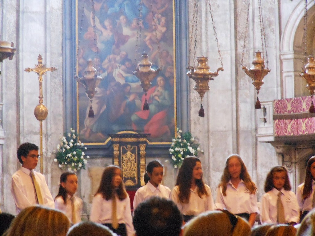 Children's Choir